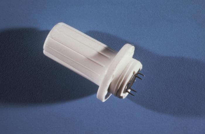 A four prong instrument used to administer the Tuberculin Tine Test. In this test, the tuberculosis antigen is introduced just under the skin with this multi-pronged instrument. The antigen is located on the tines (spikes) that penetrate the skin, usually the forearm.